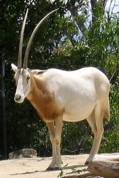 Scimitar Oryx at Sydney Taronga Zoo